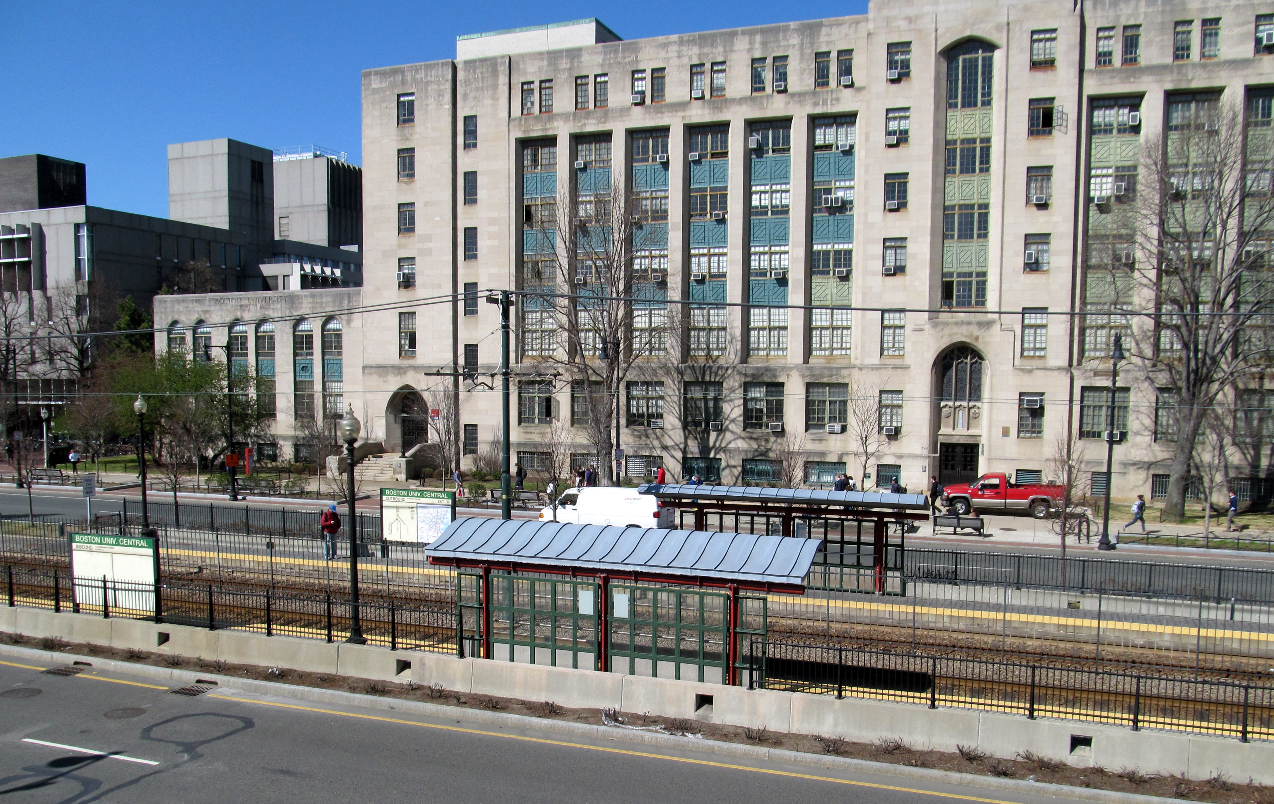 BU Central station on the "B" Branch, viewed from the second-story CVS garage. The BU School of Theology is behind.